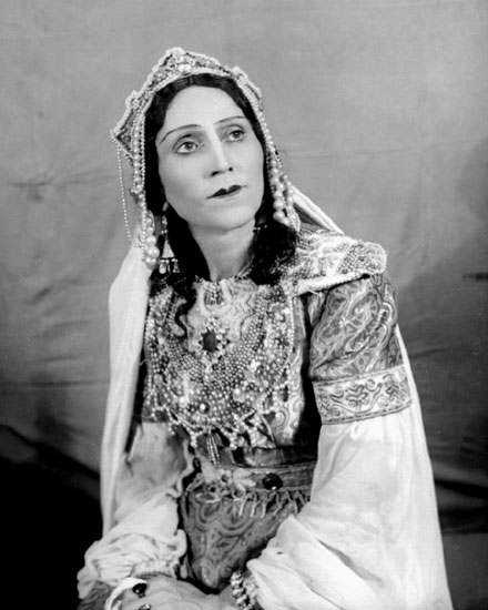 Marziya Davudova as Shirin ("Farhad and Shirin" of Samed Vurgun)